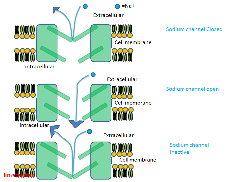 This is mechanism of action of phenytoin sodium channels are 1.Closed channels 2.Open channels 3.inactive channel done by phenytoin